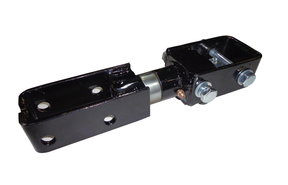 This is the underside view of swivel adapter used to connect a traditional/conventional ball and socket coupler with a motorcycle trailer.